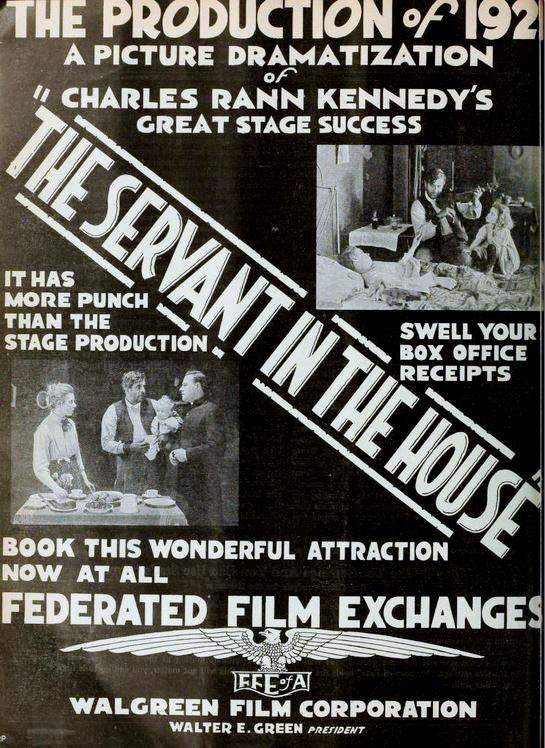 Ad for the American film The Servant in the House (1921) with Jean Hersholt as the servant (shown holding child), Jack Curtis as the "Drain Man" (shown in bed), Edward Peil, Sr. as the vicar, and Clara Horton as the Drain Man's daughter; on page 16 of the February 20, 1921 Film Daily.